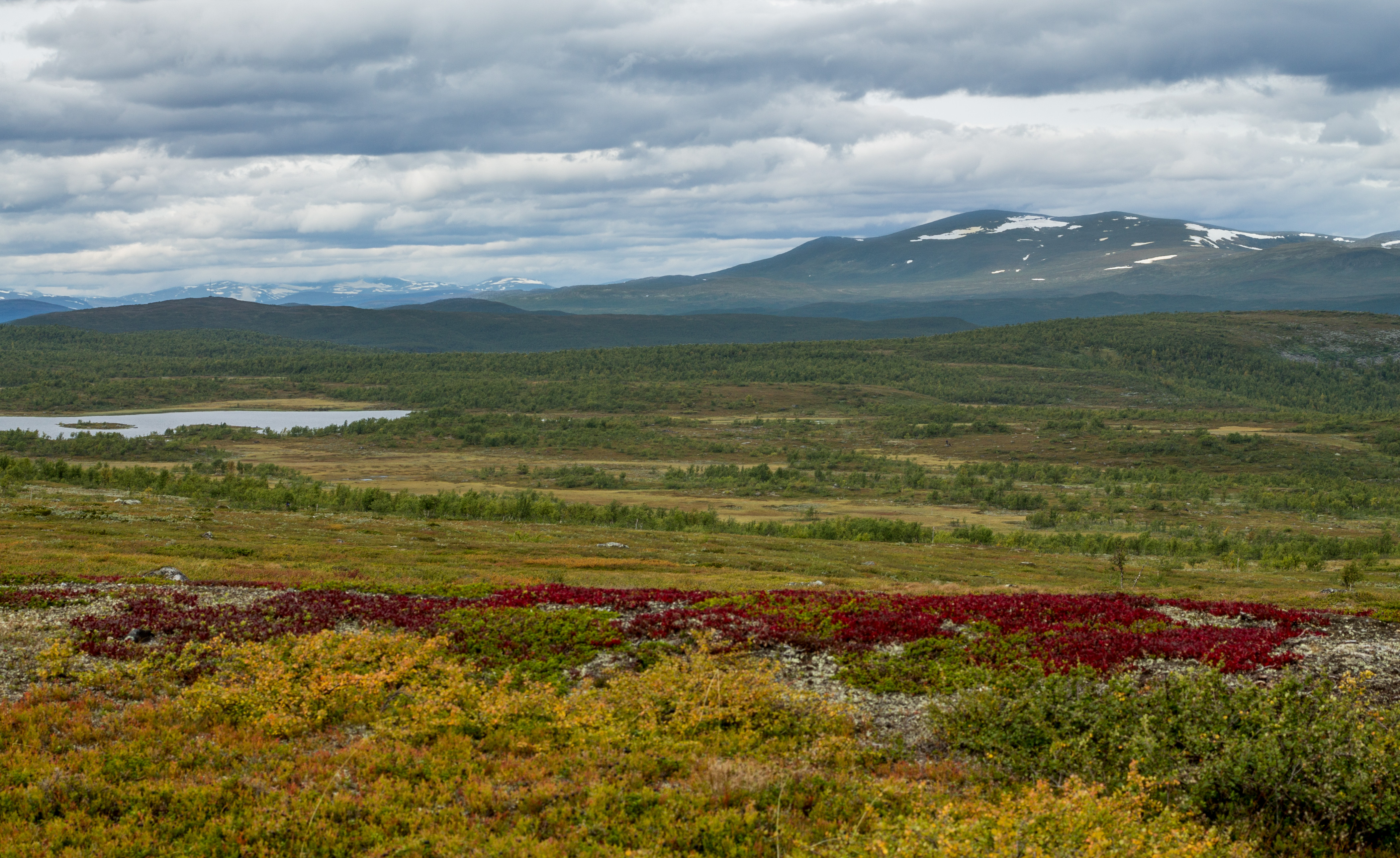 Landscape north of Pieljekaise mountain area.